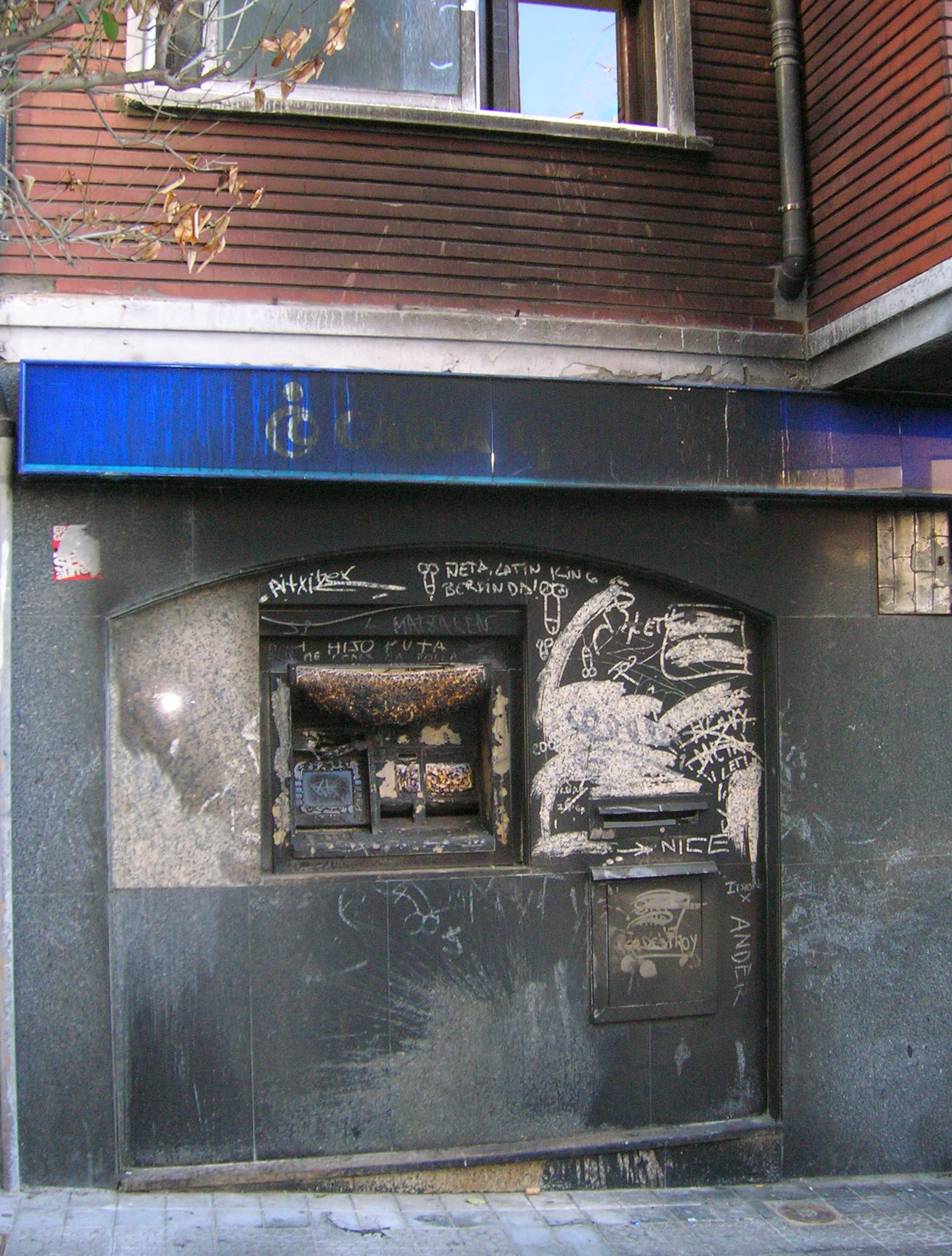 A night during the fiestas of Algorta, July or August 2005, this Caixa Galicia cash machine was burnt. The fire also affected the flats above.